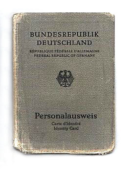 Identity passport of the Federal Republic of Germany (Western Germany). Passports of this type was produced from 1951 to 1987; this specimen was manufactured in 1979 and its edges are pretty abraded. The image shows the passport nearly in its original size.